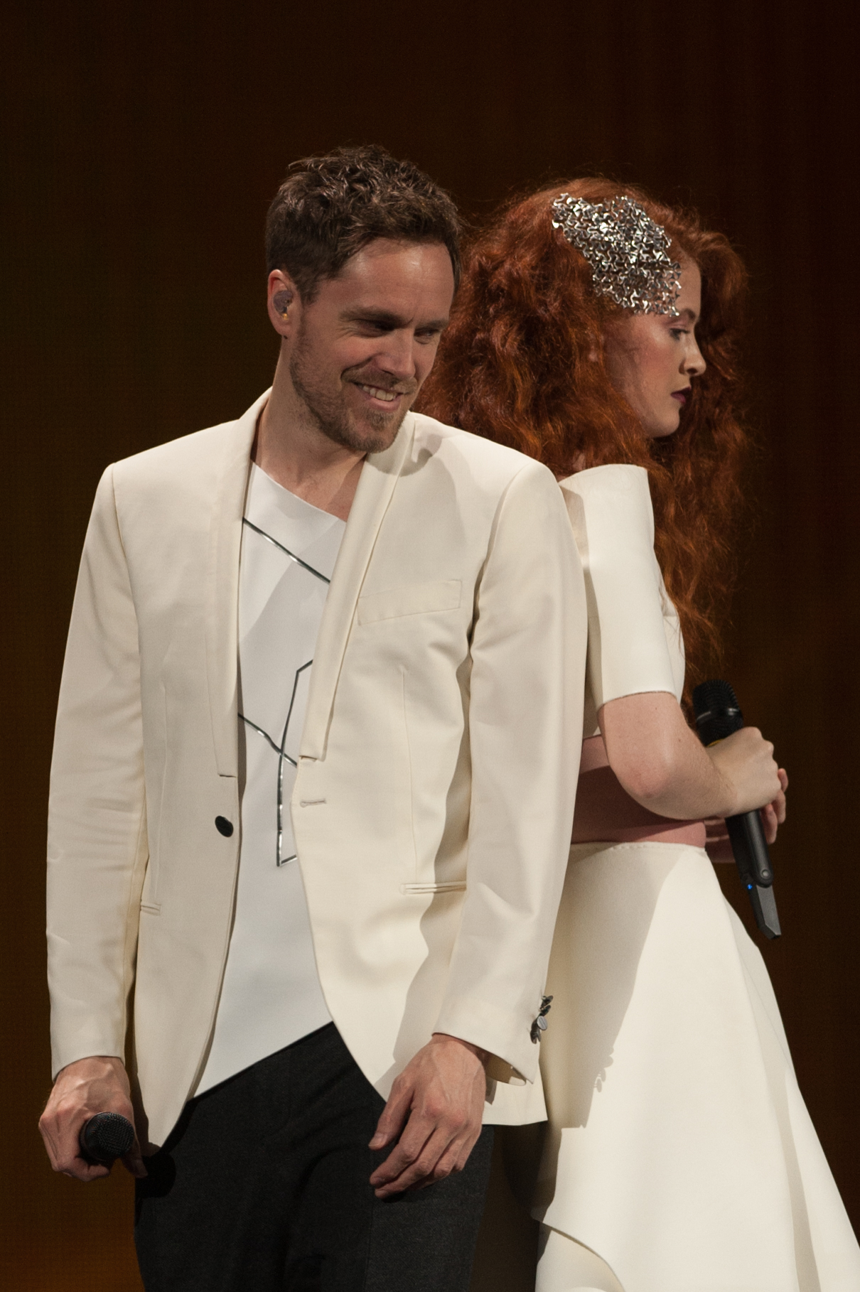 Eurovision Song Contest Vienna 2015: Mørland & Debrah Scarlett